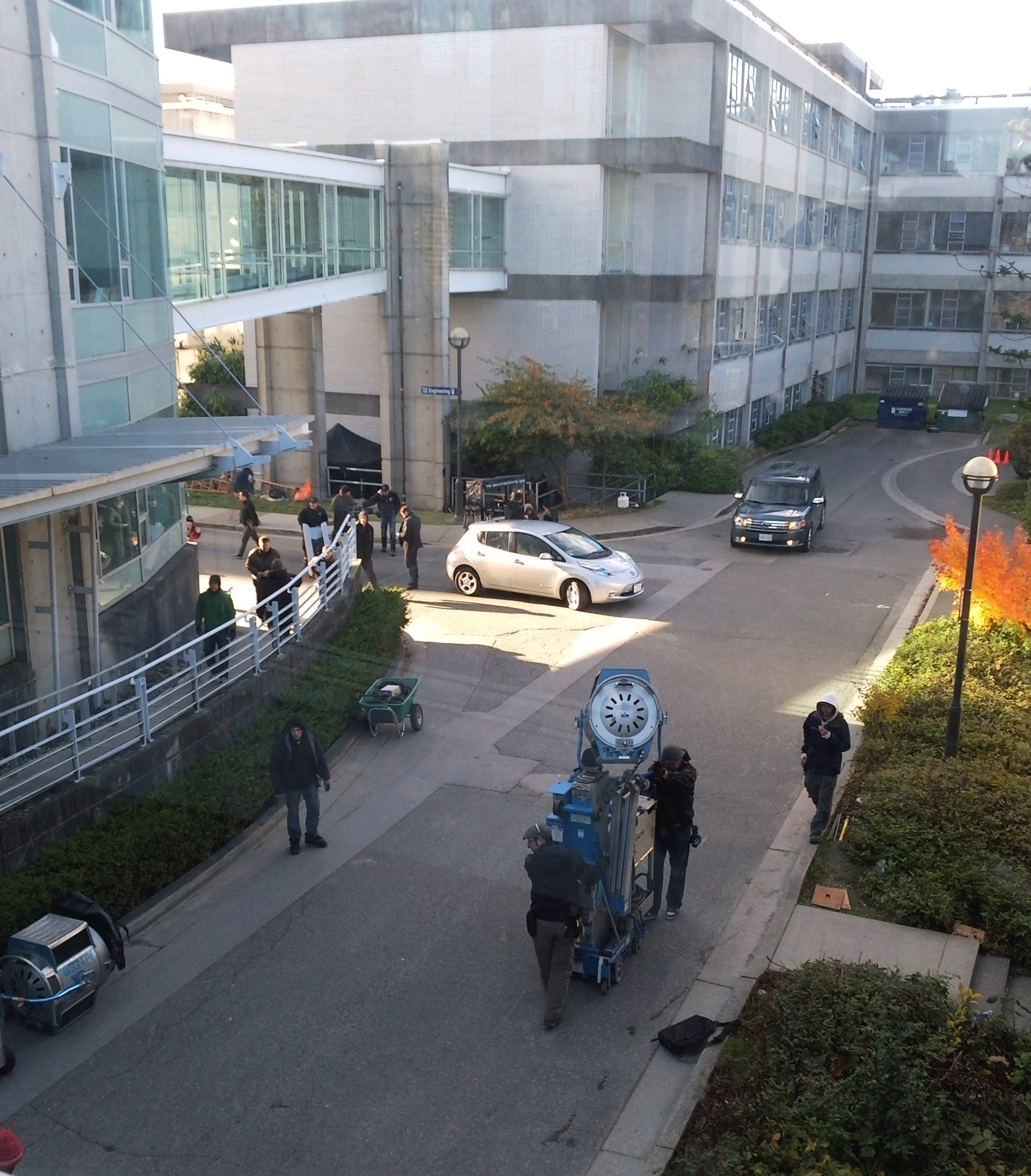 Fringe filming at UBC's Macleod and Brimacombe buildings.